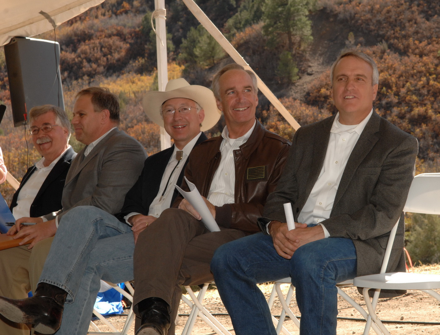 U.S. Senator Ken Salazar, at left, joined Secretary Kempthorne on Oct. 16, 2008, near Durango, Colorado at an event celebrating the Animas-La Plata water project.